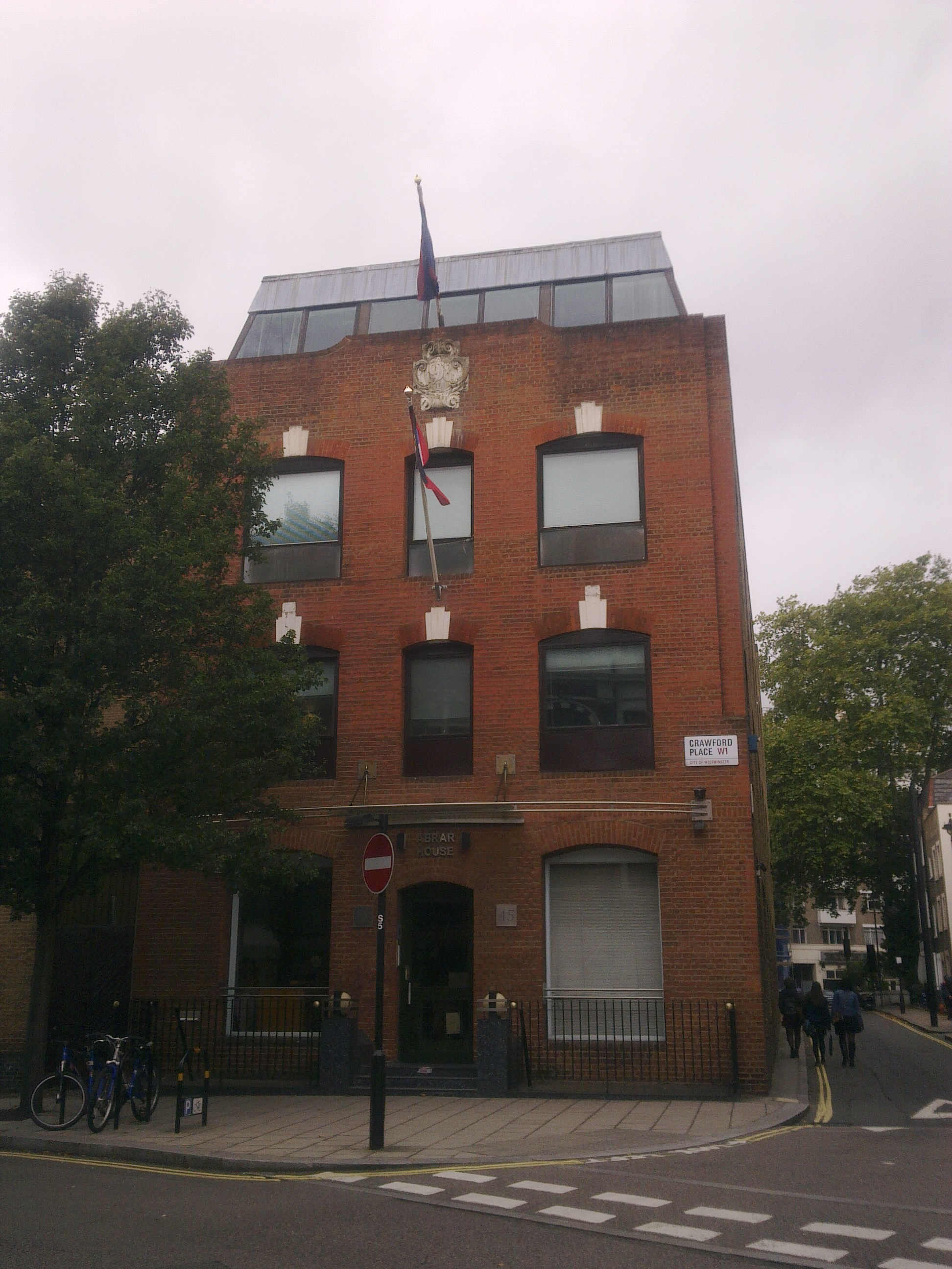 High Commission of Antigua and Barbuda/Belize in London